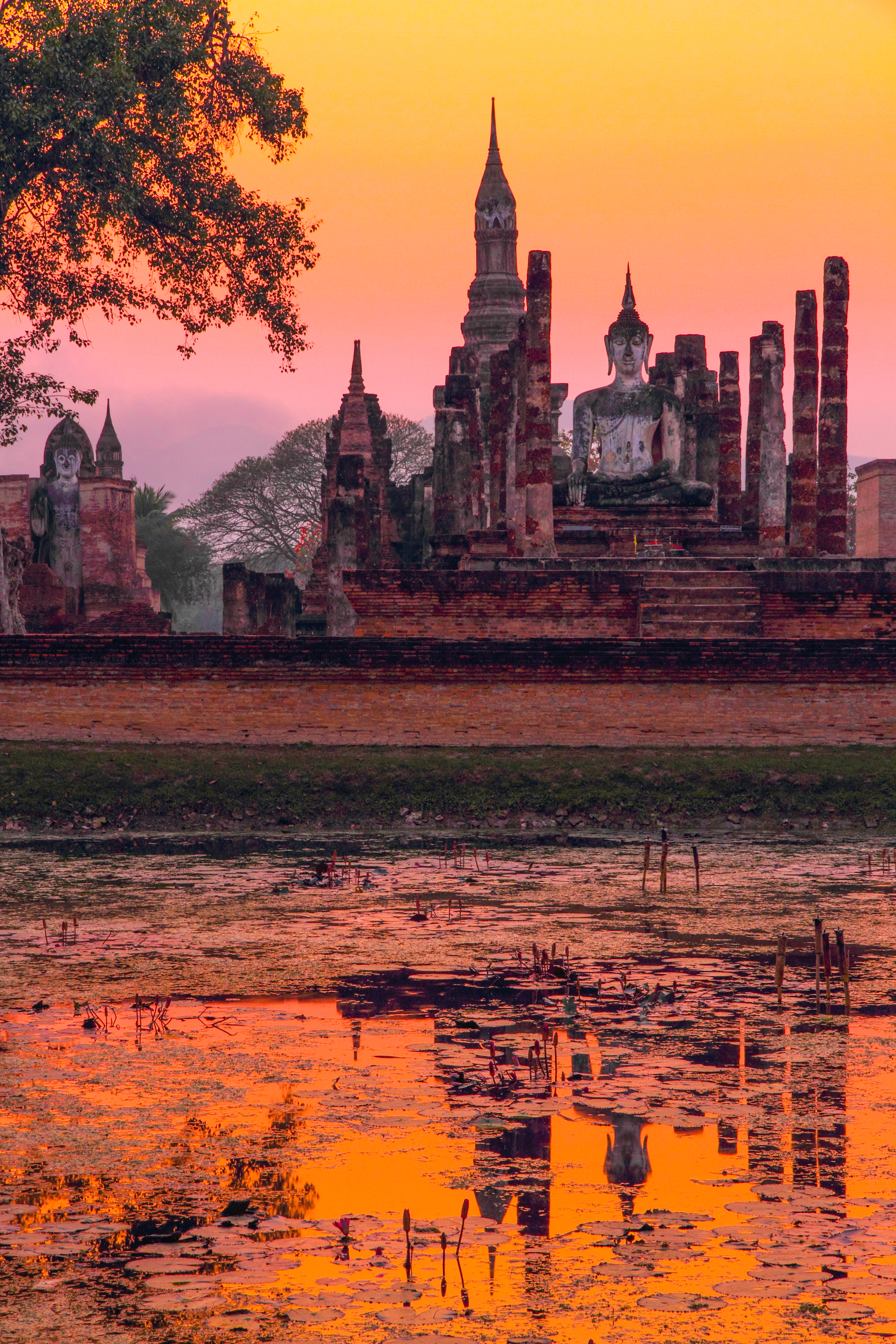 วัดมหาธาตุ